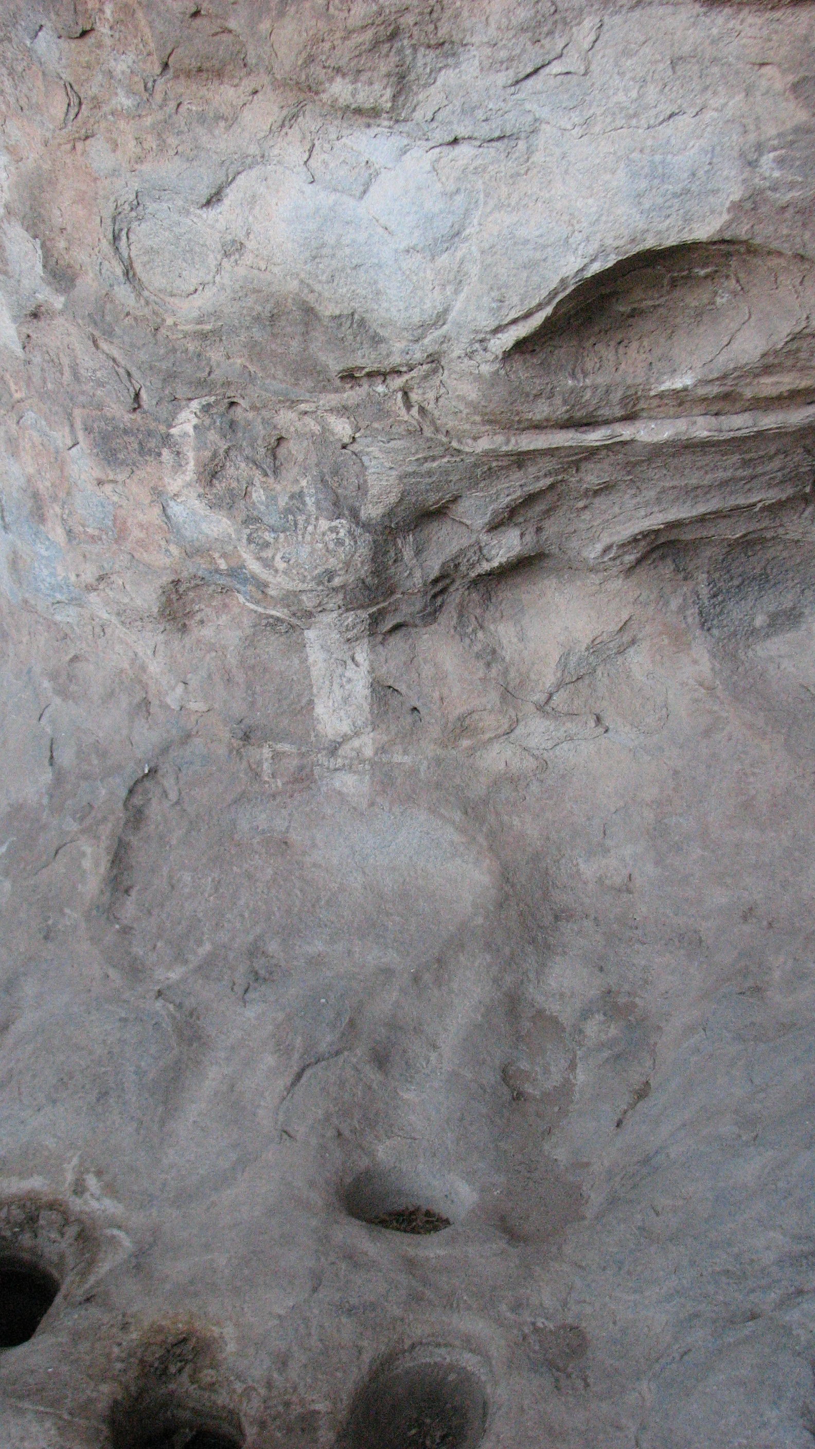 Metates and White Horned Dancer, in the Cave of the White Horned Dancer, Hueco Tanks, El Paso County. The White Horned Dancer is not the only pictograph in this cave, which also has an antelope, a snake-like feathery glyph, and others. The images show an array of art techniques, indicating that multiple cultures have inhabited this cave over multiple epochs. Hueco Tanks has artifacts dating from as long as 11,500 to 10,000 years ago. The hollows in the rock face to the right of the White Horned Dancer are a natural feature of syenite, a weak form of granite. Hueco is Spanish for 'hollow'. The Cave of the White Horned Dancer is itself a hollow.